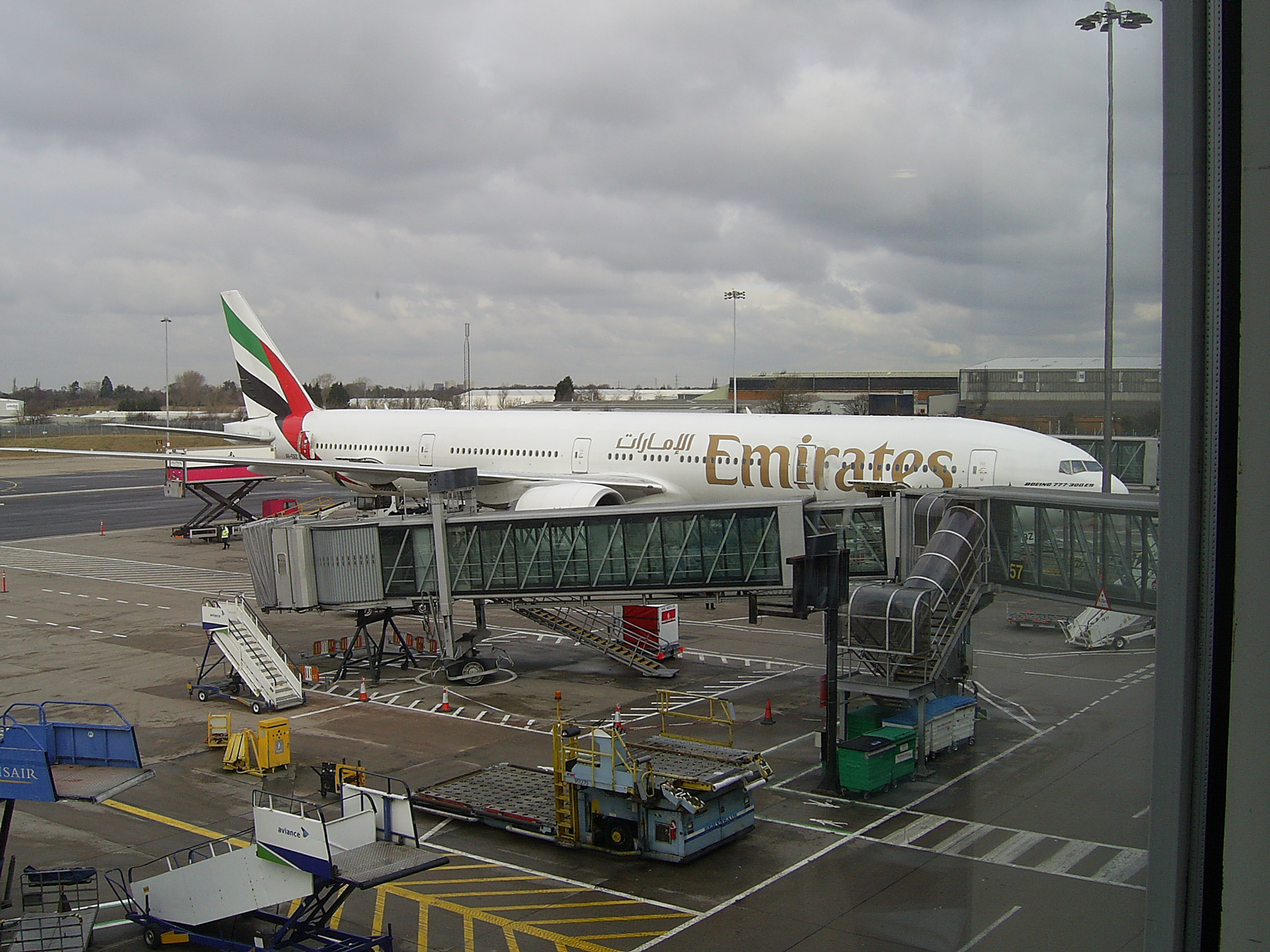 Emirates Boeing 777-300ER,AE EBZ, at Birmingham International Airport Licensing Category:Emirates File Links طيران الإمارات